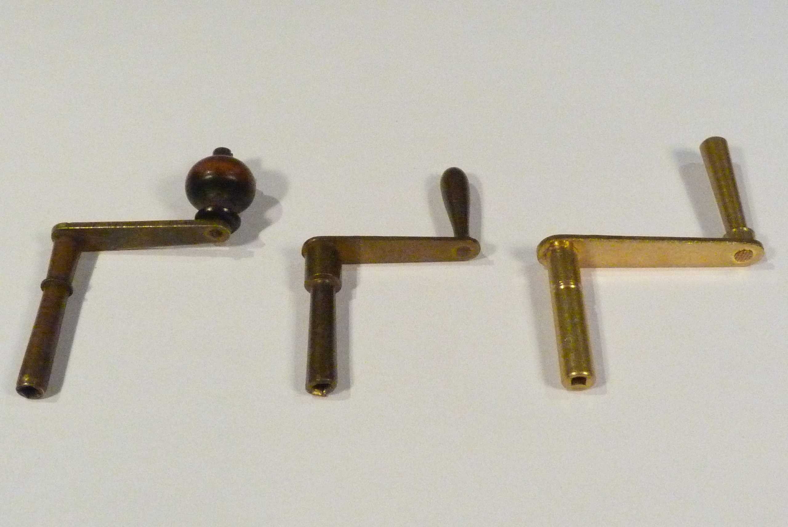 Winding crank key for weight driven wall clocks